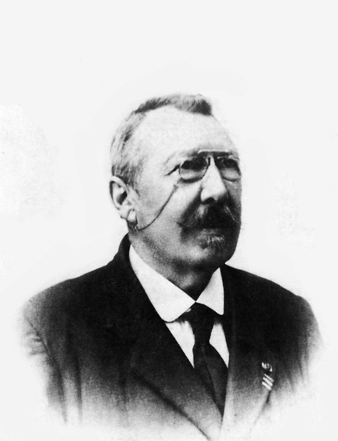 Portrait of Louis de Lausnay